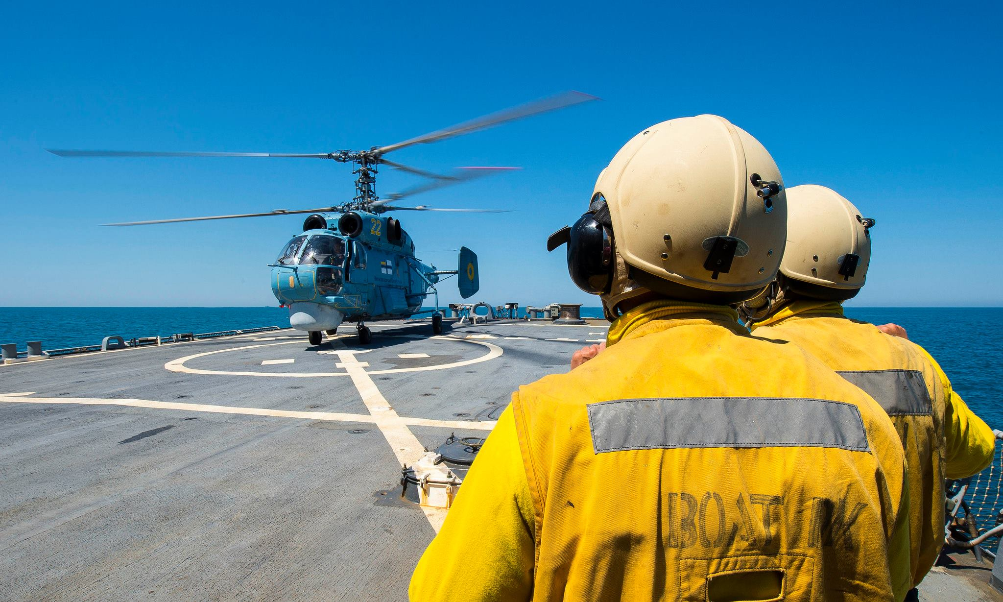 USS Ross Conducts Underway Exercise with Ukrainian Navy.